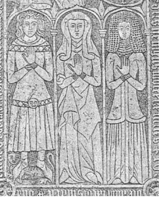 "Tombstone depicting the Danish Knight Henning Moltke, his wife Lady Elsebe and Fikke Moltke’s wife Lady Christine. Tombstone, c.1370. Presumably Scandinavian. Keldby church, Møn, Denmark. Drawing by J.B. Løffler, 1888" − (Description page 12 in the article "1300-tallets krusede hovedduge" by Camilla Luise Dahl)